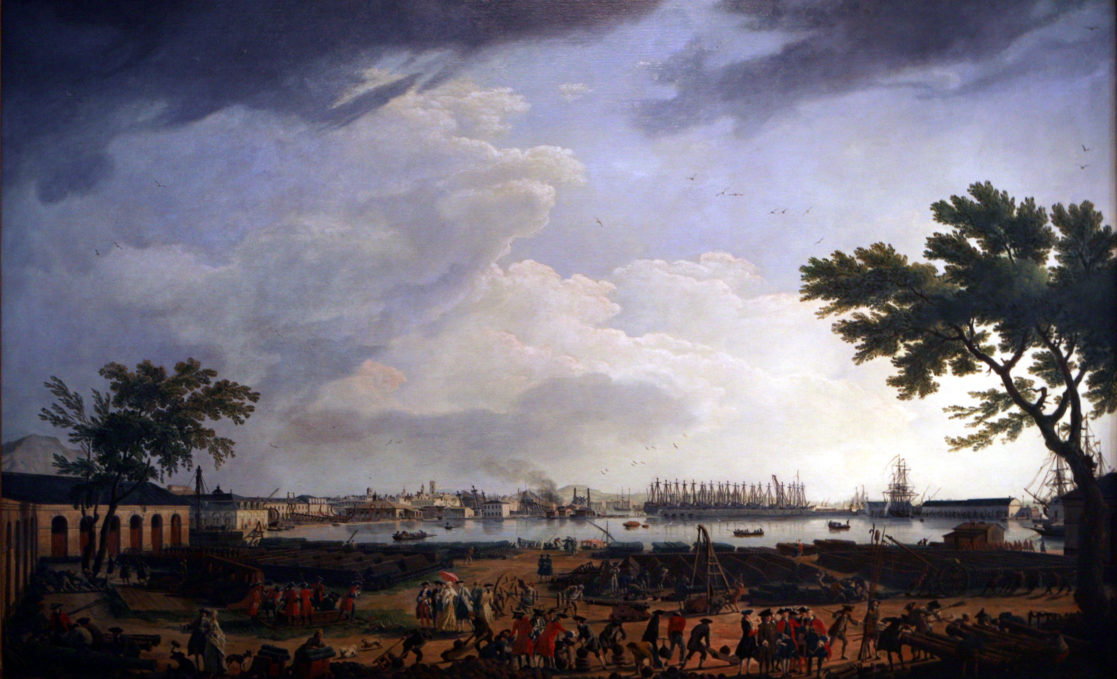 Series of paintings of the harbours of France